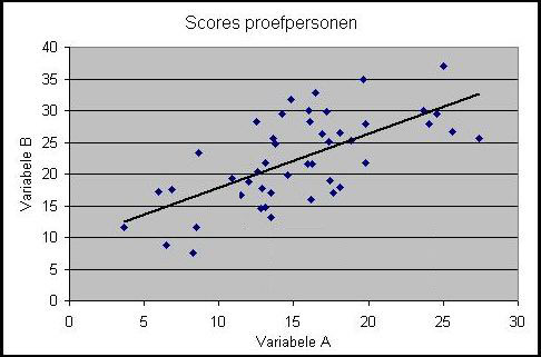 Scatterdiagram+line